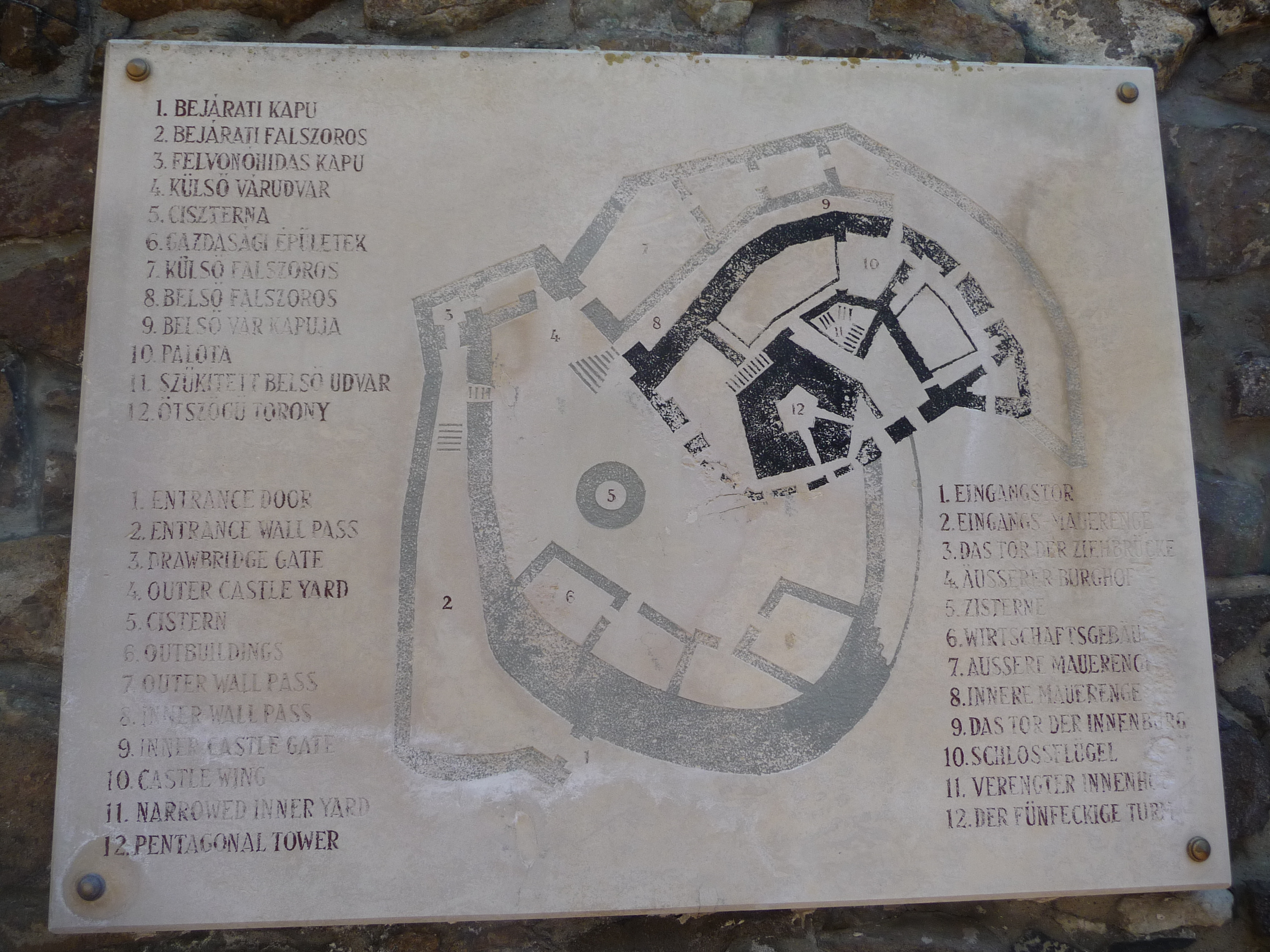 Hollókő Castle map in Hollókő Castle.